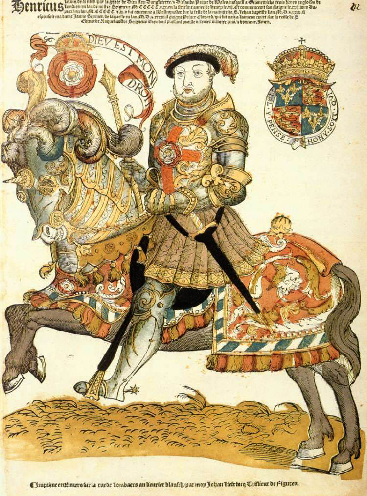 Henry VIII of England on Horseback. Hand-coloured woodcut. .